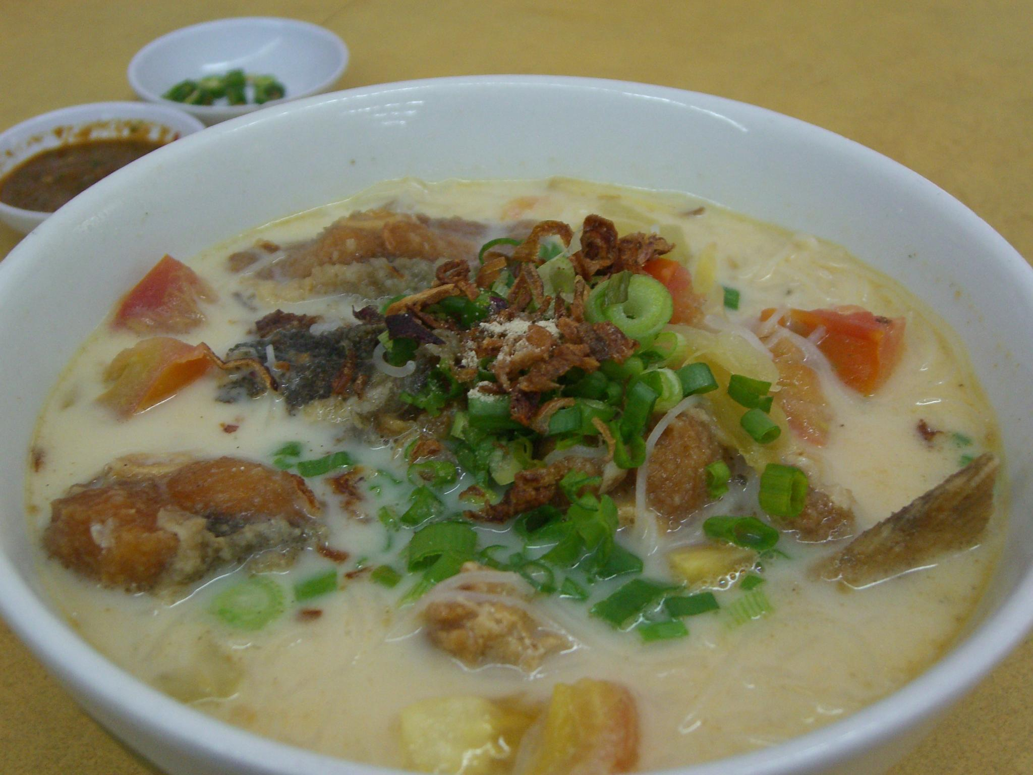 Fish Head Noodle